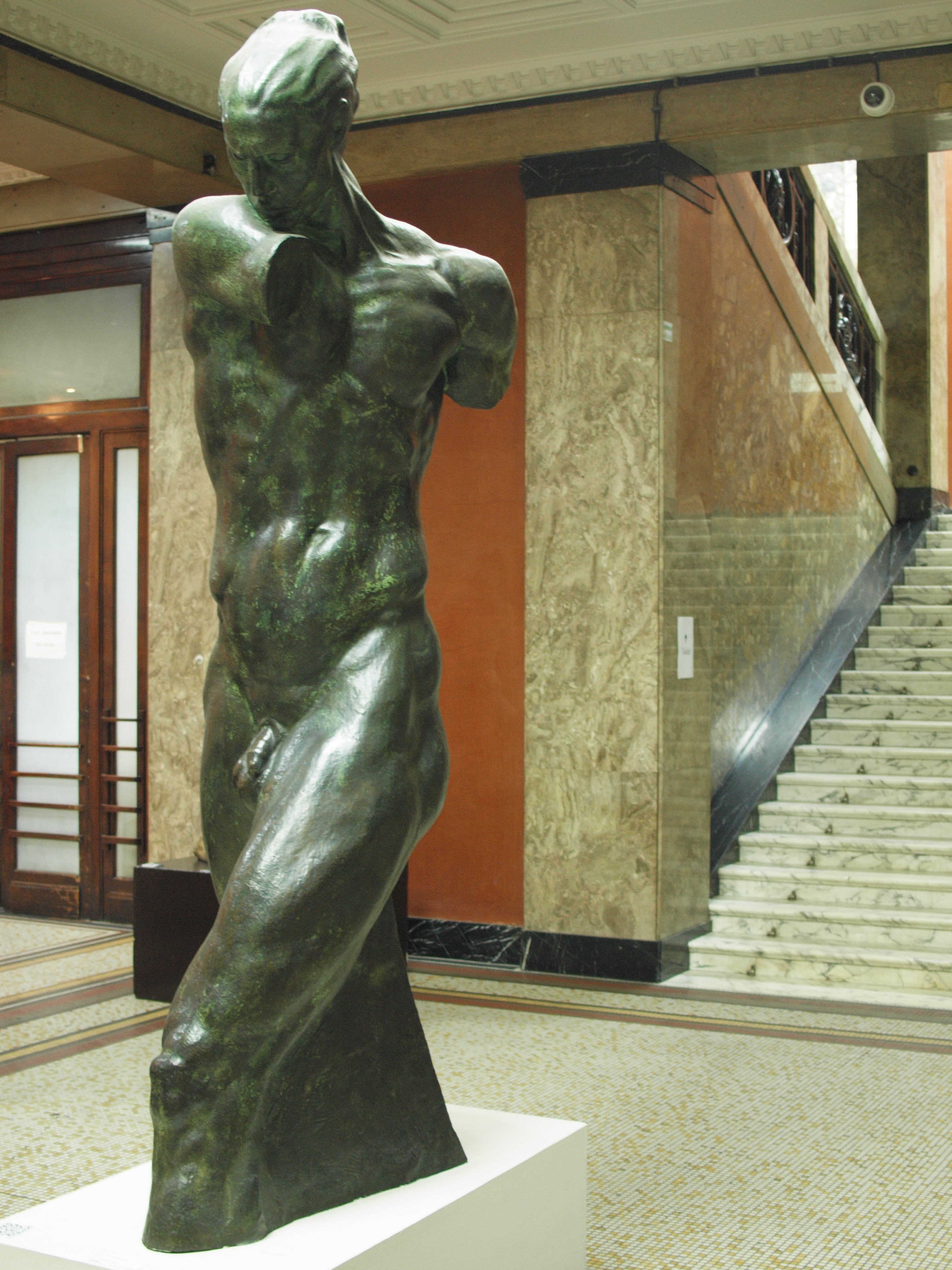 Ivan Meštrović Miloš Obilić